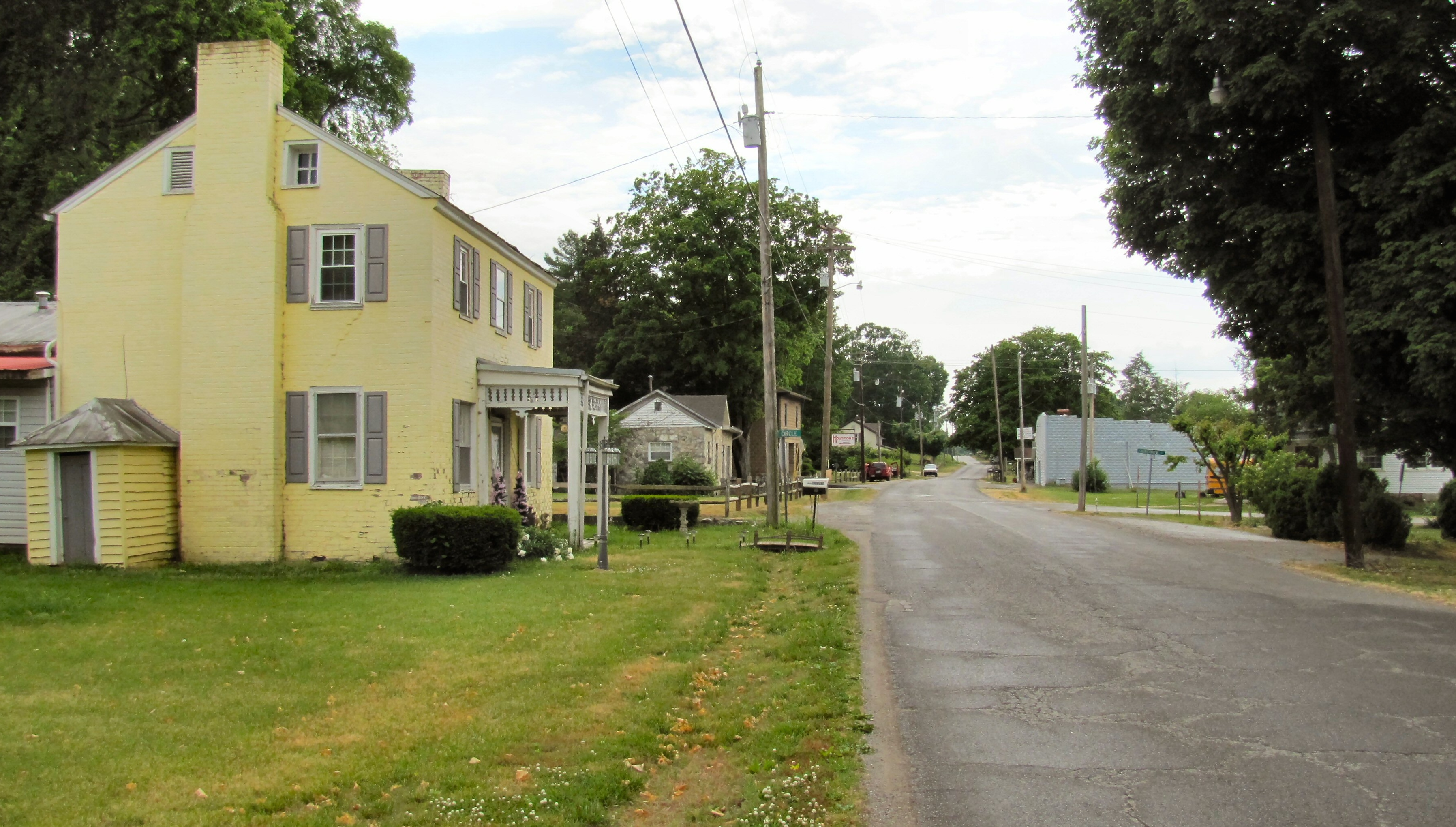 Old Andrew Johnson Highway in New Market, Tennessee, United States.